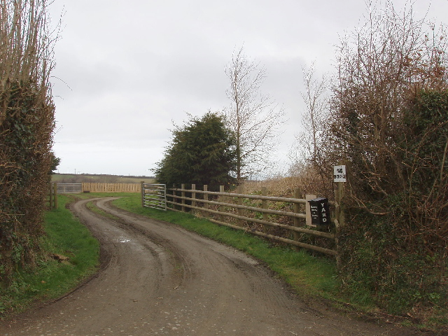 Yard entrance, Pencuke Farm View from road.